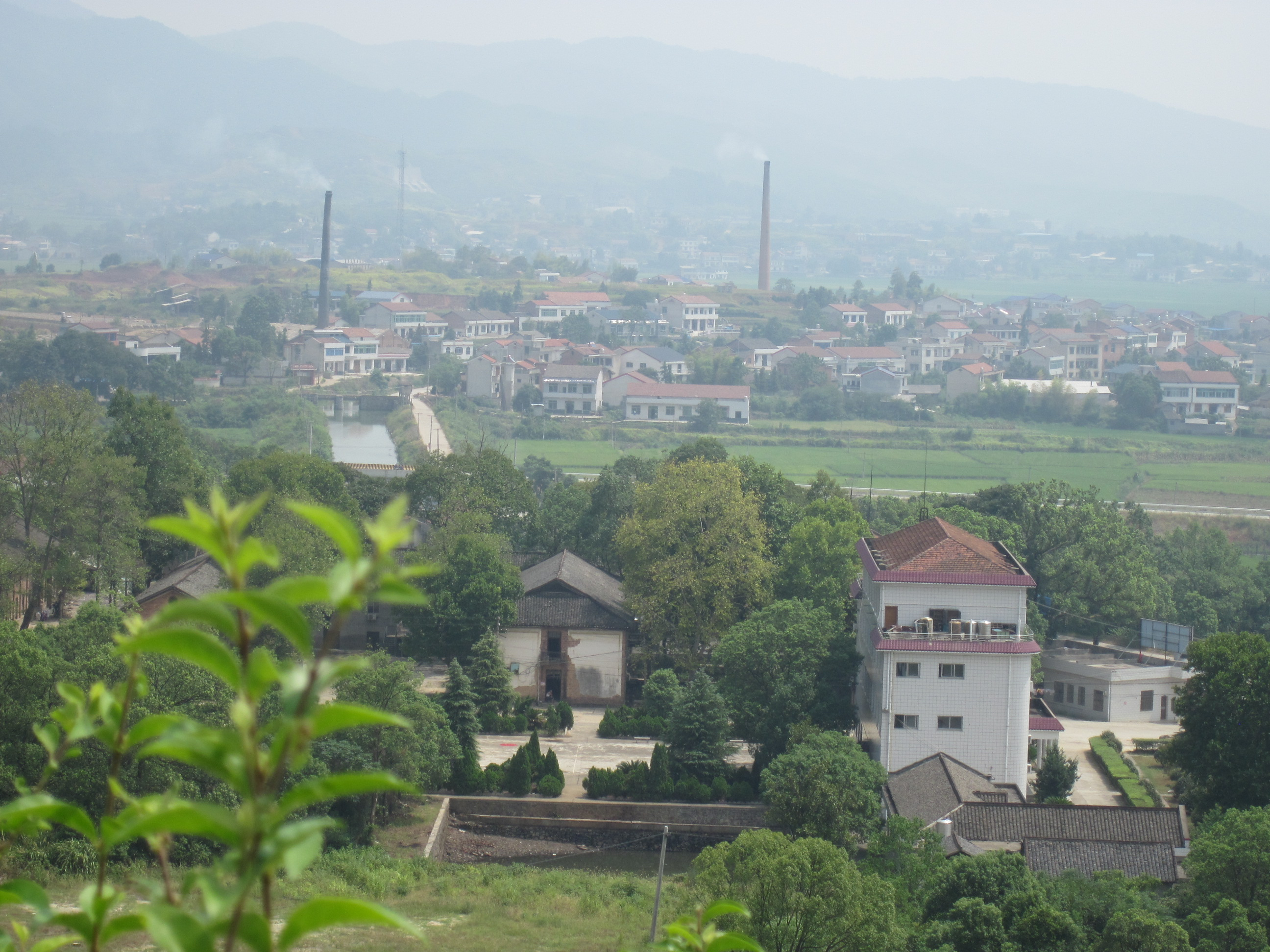 A view over Huangcai Town from the dam of Huangcai Reservoir, 24 August 2013.中文（中国大陆）: 从黄材水库大坝俯视黄材镇的照片。2013年8月24日。